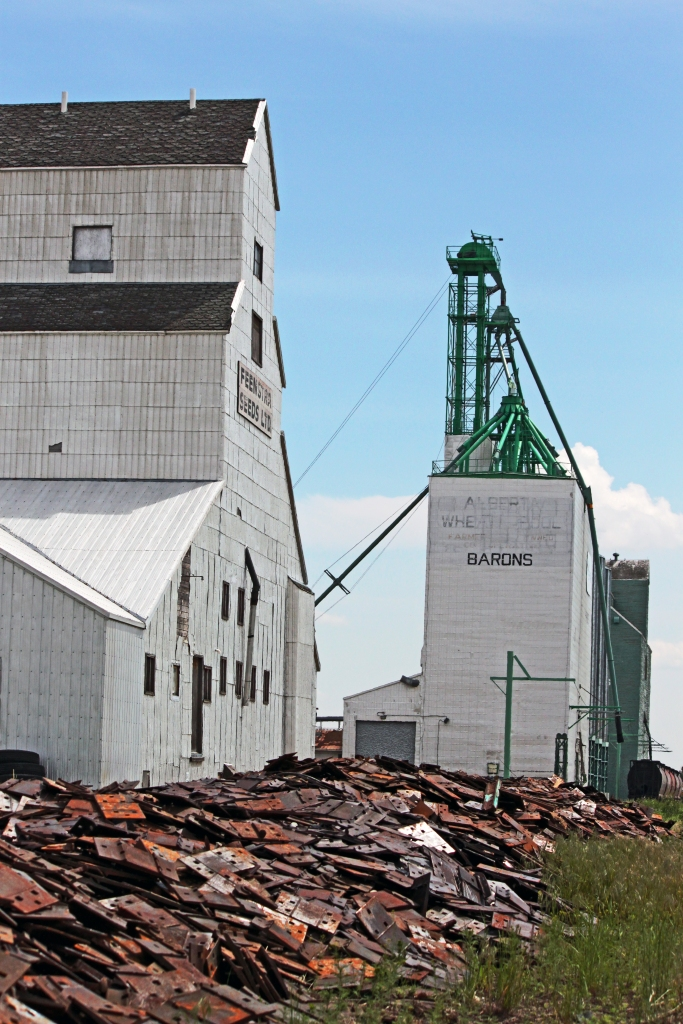 Grain elevators in Barons, Alberta